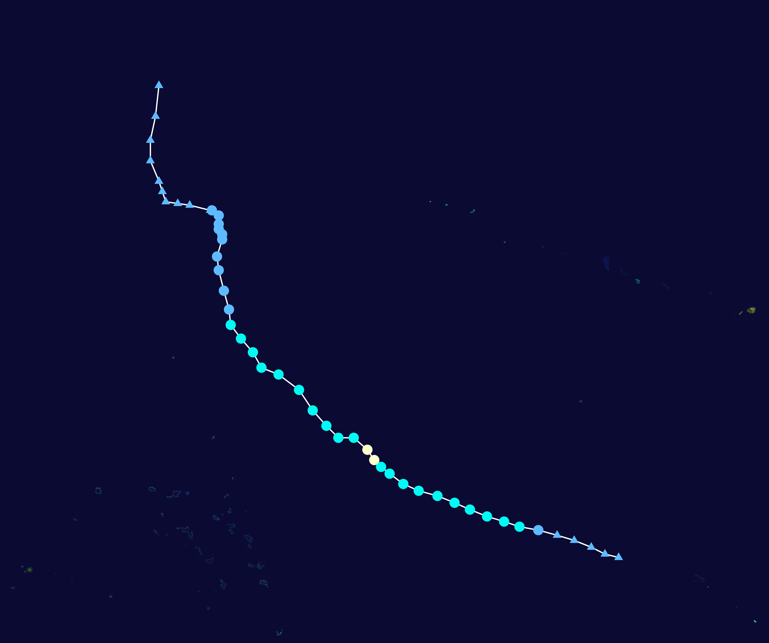 Track map of Severe Tropical Storm Pewa of the 2013 Pacific hurricane season and the 2013 Pacific typhoon season. The points show the location of the storm at 6-hour intervals. The colour represents the storm's maximum sustained wind speeds as classified in the Saffir–Simpson scale (see below), and the shape of the data points represent the nature of the storm, according to the legend below. Saffir–Simpson scale Tropical depression≤38 mph≤62 km/h Category 3111–129 mph178–208 km/h Tropical storm39–73 mph63–118 km/h Category 4130–156 mph209–251 km/h Category 174–95 mph119–153 km/h Category 5≥157 mph≥252 km/h Category 296–110 mph154–177 km/h Unknown Storm type Tropical cyclone Subtropical cyclone Extratropical cyclone / Remnant low / Tropical disturbance / Monsoon depression